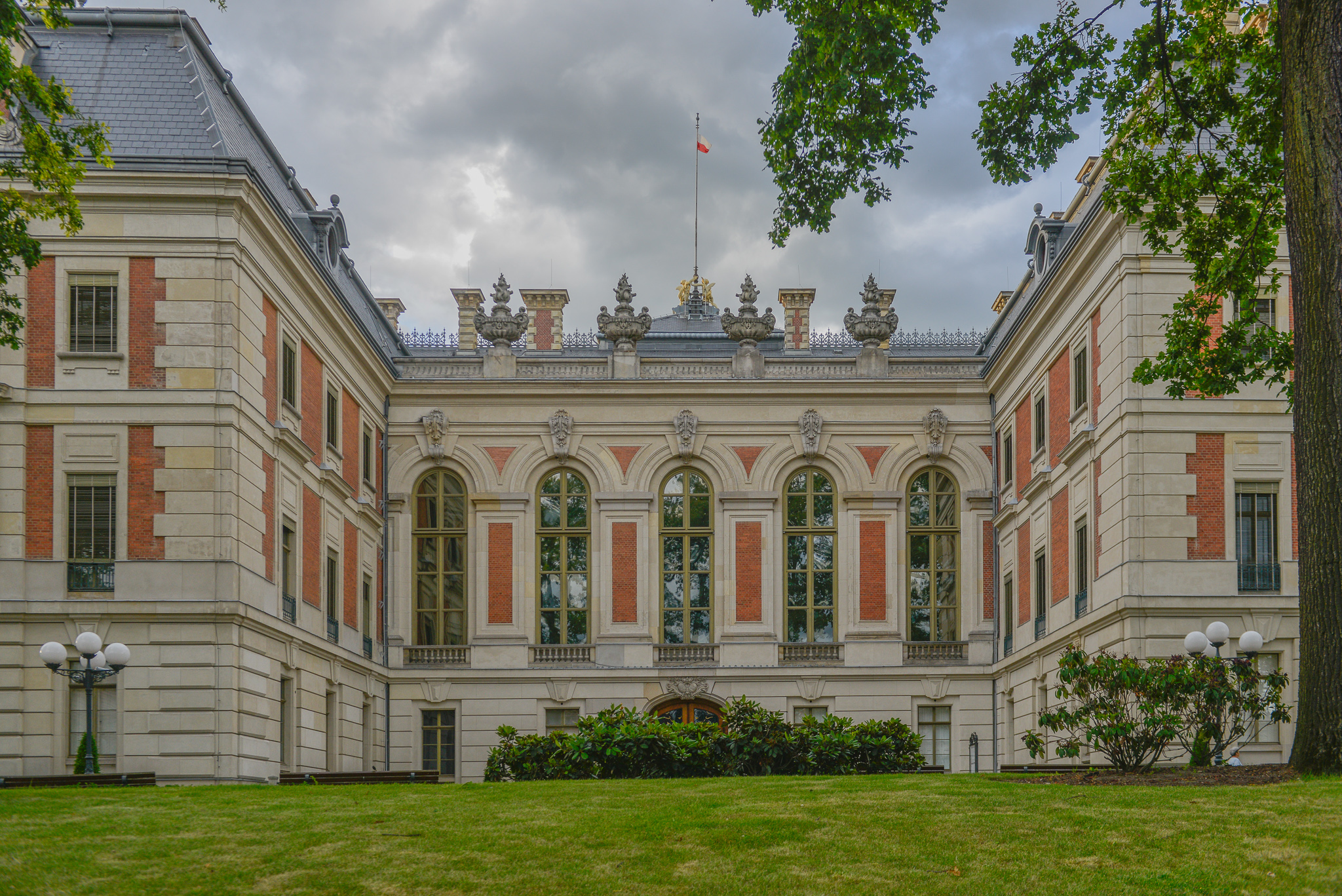 Pszczyna photography, Palace in Pszczyna, south side